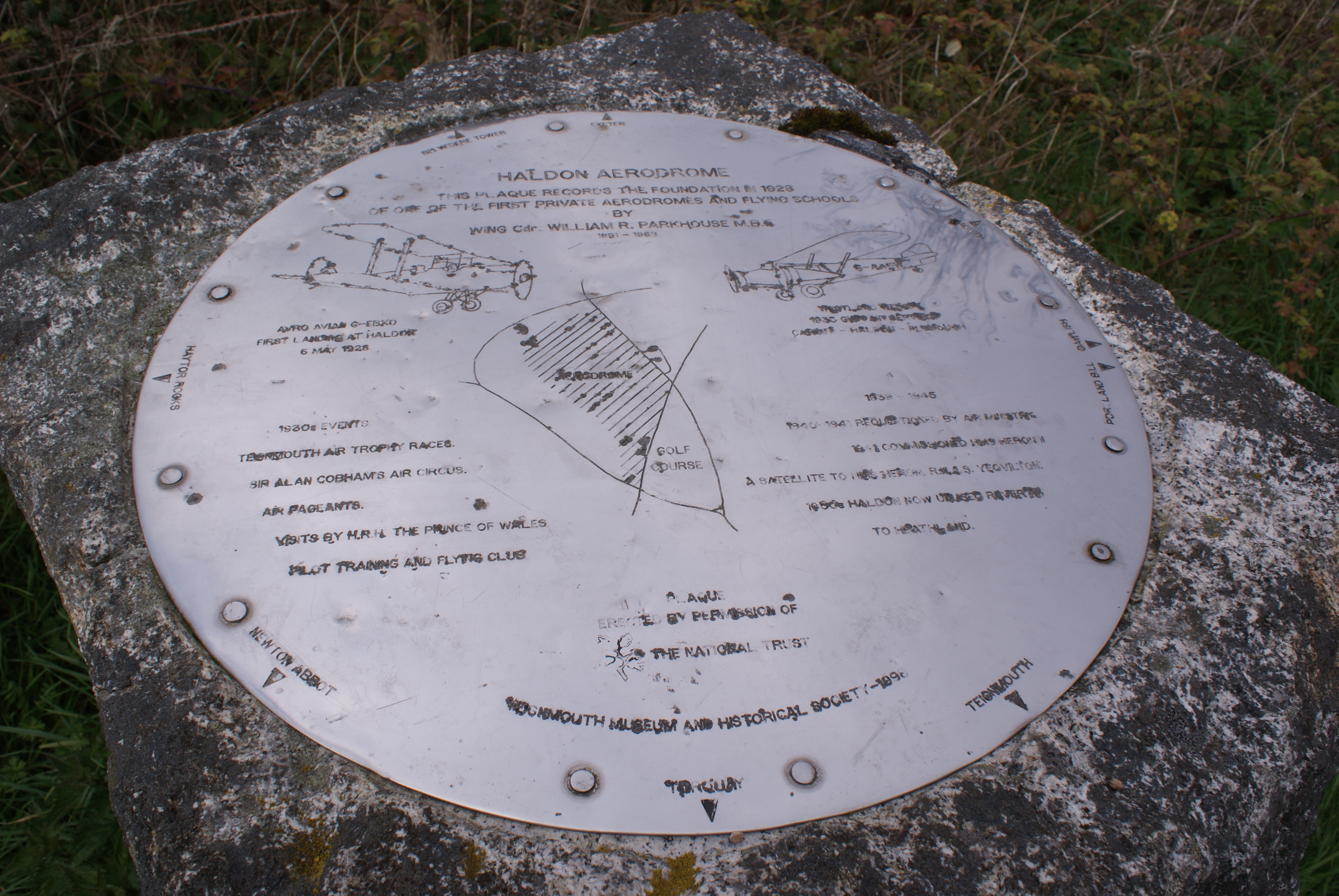 Haldon aerodrome toposcope